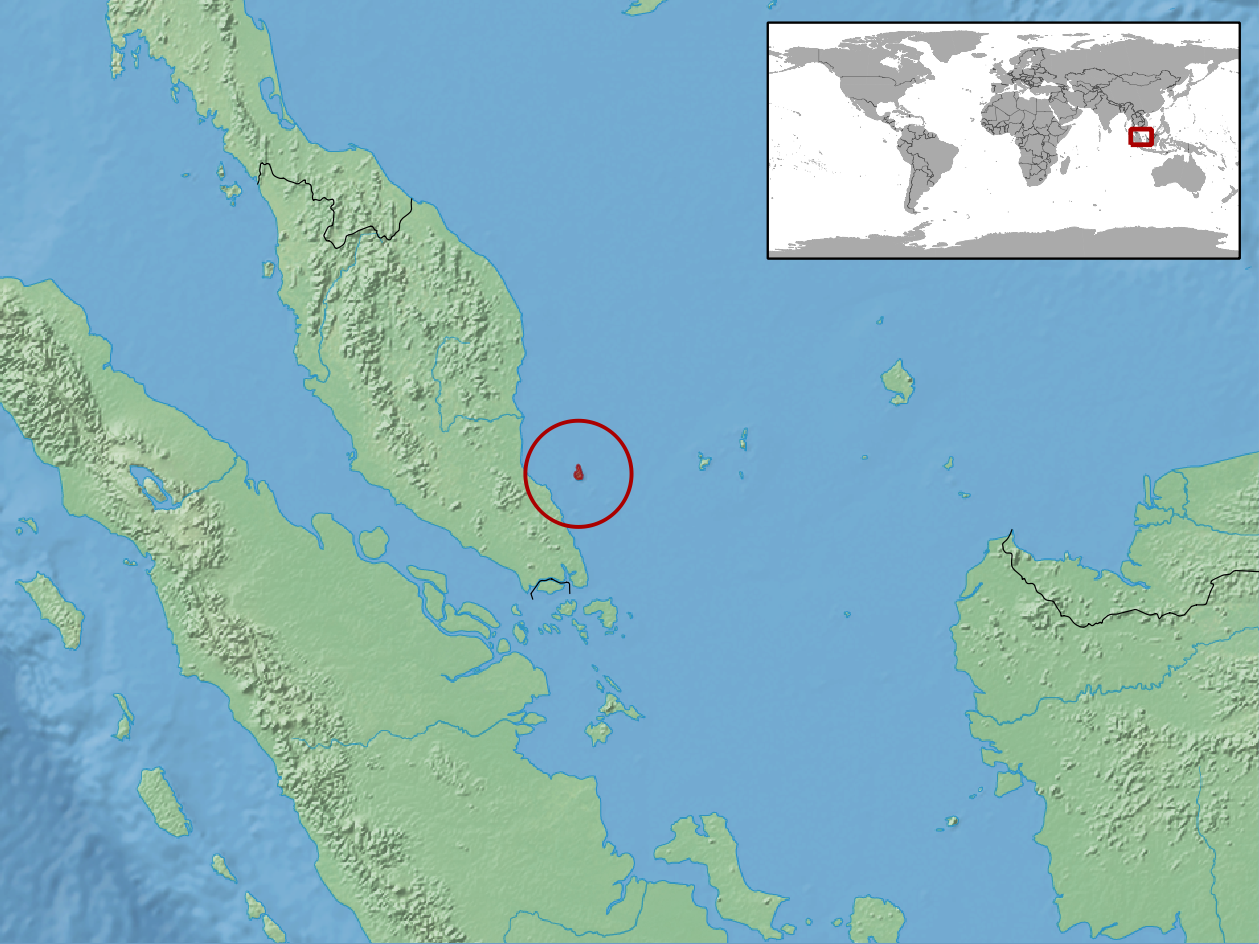 geographic distribution of Calamaria ingeri (Native: Malaysia (Peninsular Malaysia))